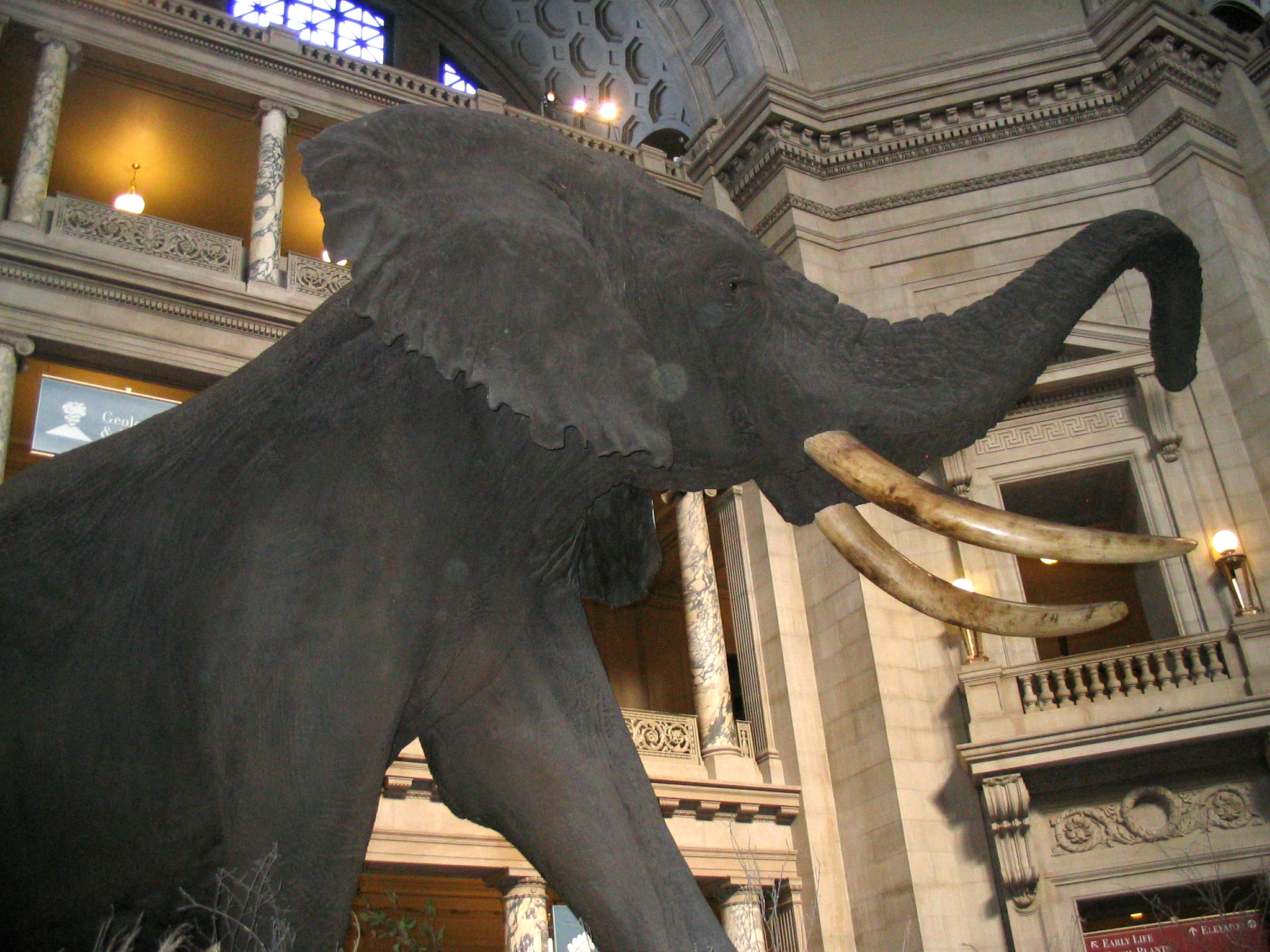 This taxidermied Loxodonta africana African Bush Elephant stands in the National Museum of Natural History.